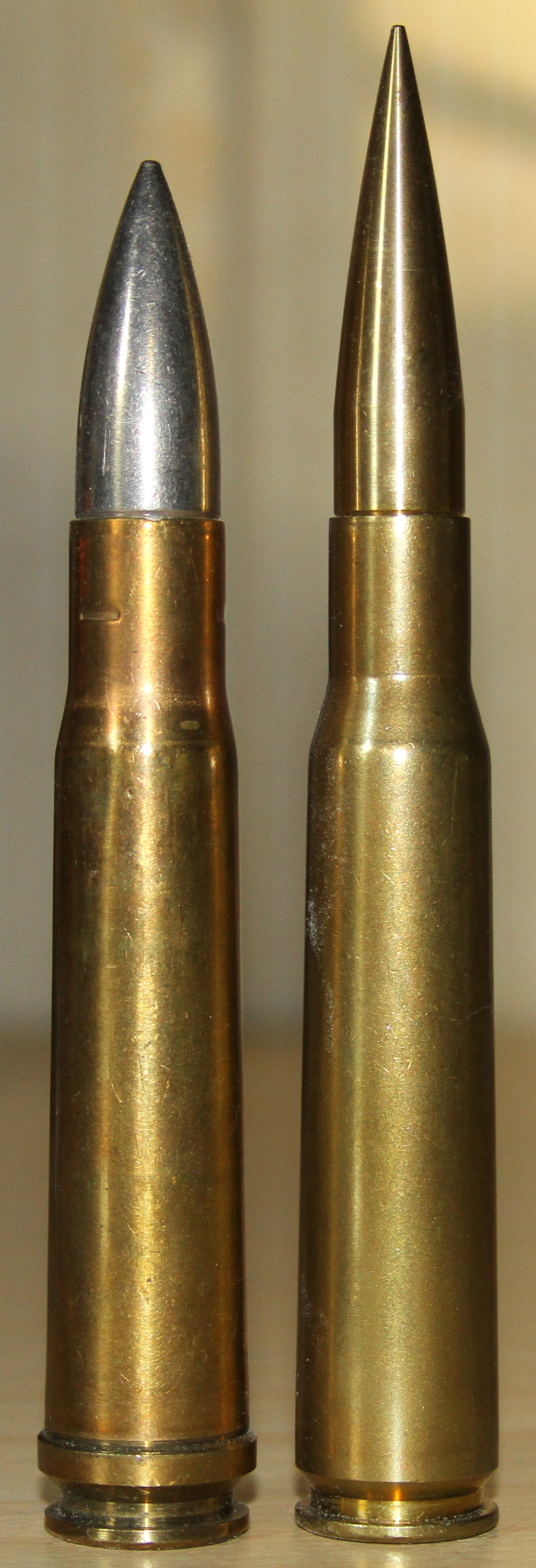 .55 Boys cartridge next to a .50 BMG cartridge.